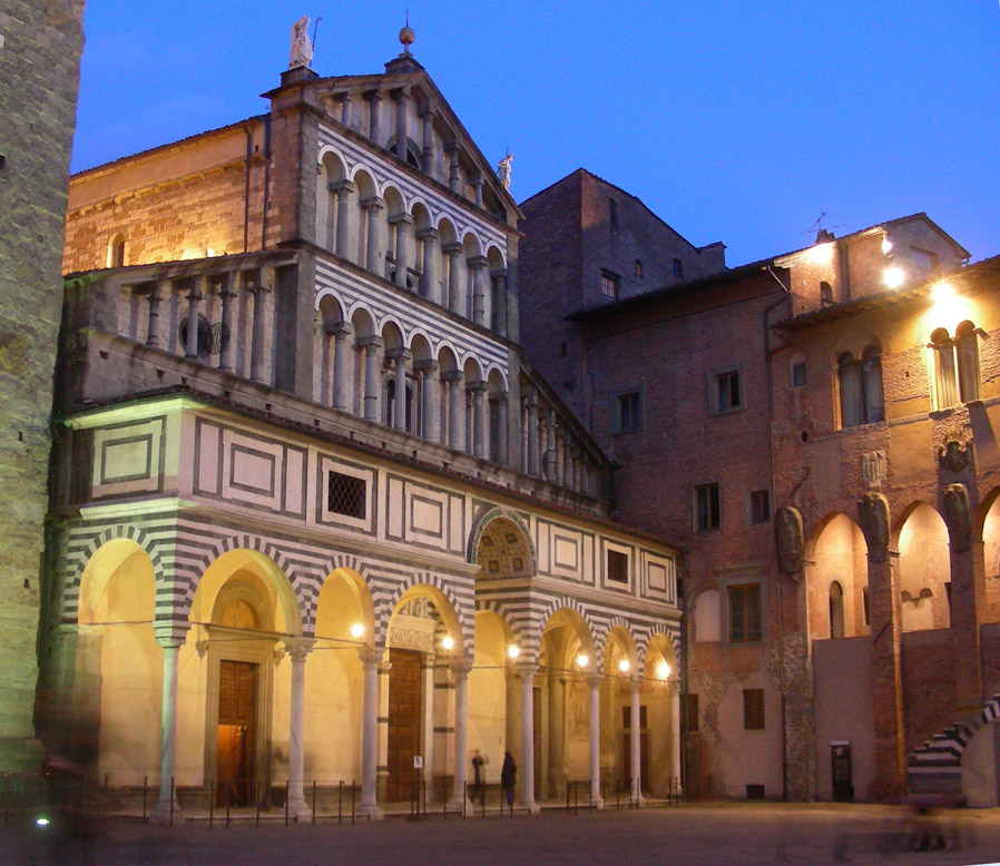 Italy, Pistoia, Cathedral, by night